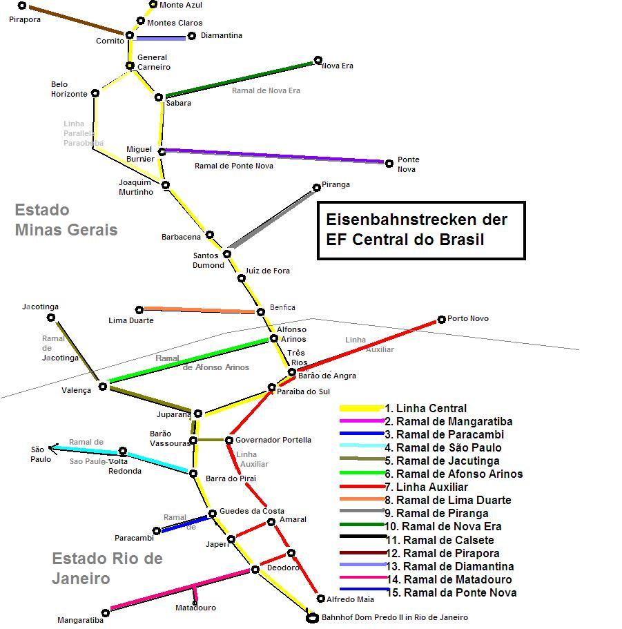 Railway network of the historic company EFCB Estrada de Ferro Central do Brasil